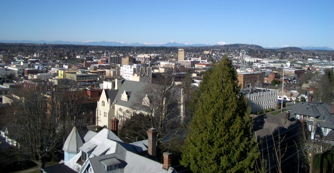 Downtown Bellingham as observed from Sehome Hill at 48Â°44'37.2587" North, 122Â°28'42.1680" West (facing North)